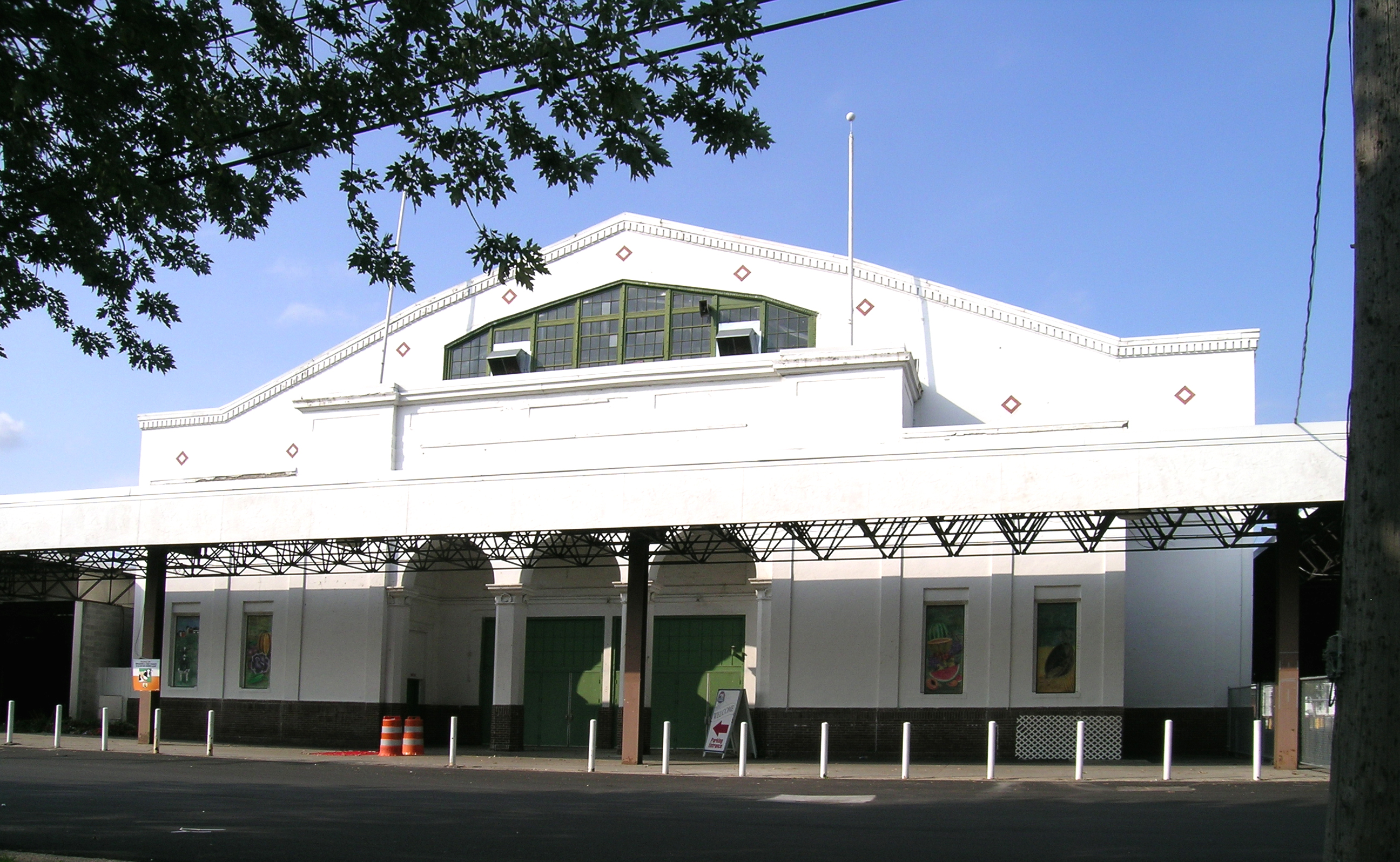 Agricultural Building at the Michigan State Fair, Detroit